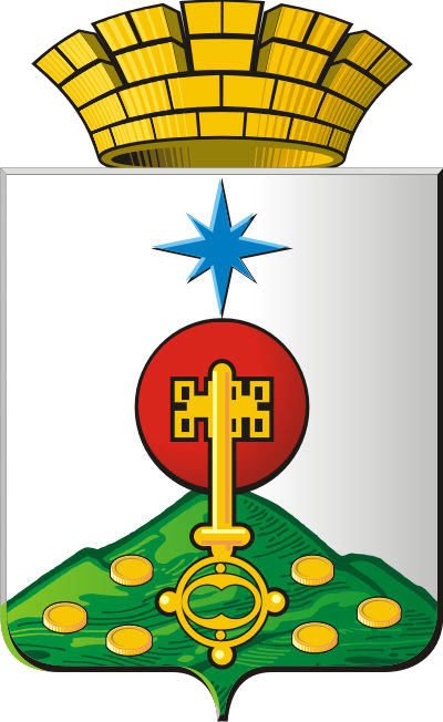 Severouralsk municipality (Sverdlovsk oblast, Russia), coat of arms